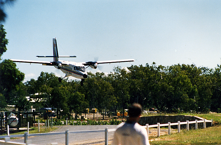 This is a perfectly normal approach for a Twin Otter.